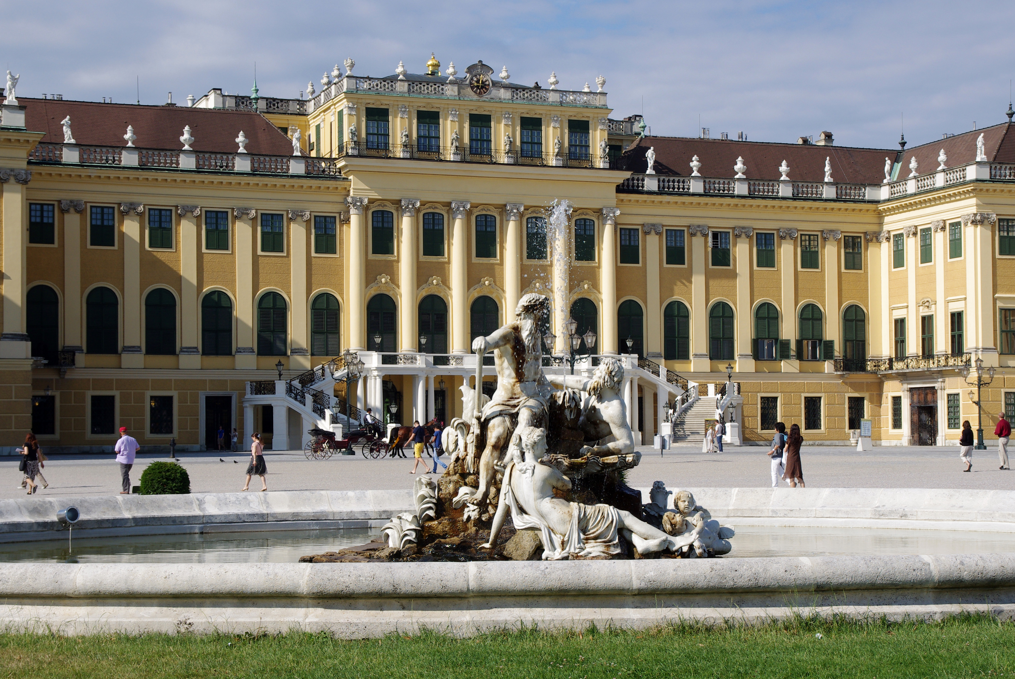 Austria, Vienna, Schönbrunn Palace